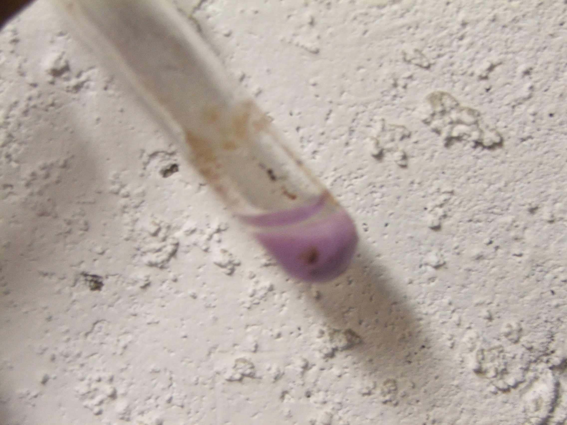 Red cobalt hydroxide made by heating blue cobalt hydroxide